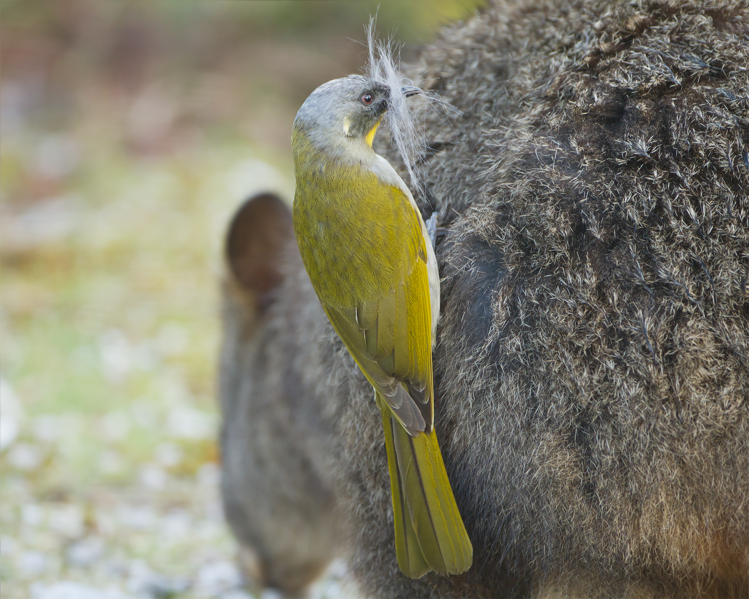 A Yellow-throated Honeyeater (Lichenostomus flavicollis) stealing hair from a Tasmanian Pademelon (Thylogale billardierii) for nesting material, Melaleuca, Southwest Conservation Area, Tasmania, Australia